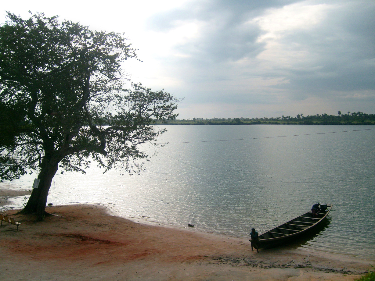 A photograph of Oguta Lake in Imo State, Nigeria